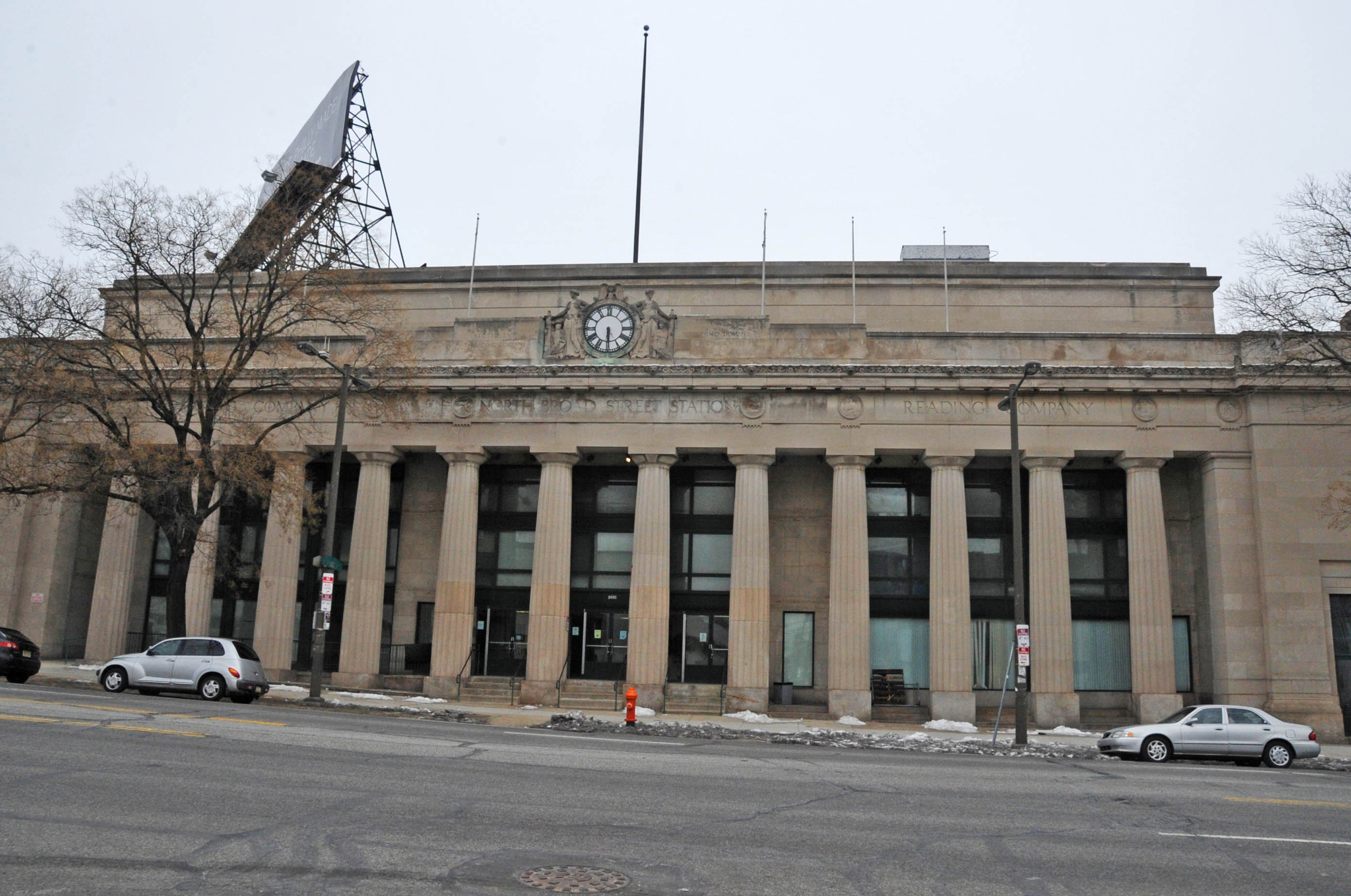 STATION BUILT BY THE READING COMPANY IN 1929. IT CLOSED IN THE 1960’S AND WAS SOLD AND IS NOW USED BY VARIOUS COMMERCIAL FIRMS. IT NO LONGER HAS ANY ACCESS TO THE TRACKS ALTHOUGH TRAINS PASS BY AND ONLY THE LANSDALE/DOYLESTOWN AND MANAYUNK/NORRISTOWN LINES SERVE THIS STATION ON THE SEPTA LINES. ABOVE THE COLUMNS CAN STILL BE SEEN THE ENGRAVED NORTH BROAD STREET STATION AND READING COMPANY . IT WAS DESIGNED BY FAMOUS ARCHITECT HORACE TRUMBAUER